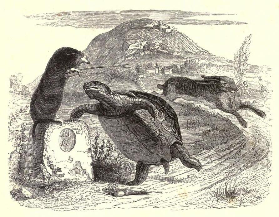 Illustration from the 1855 edition of La Fontaine's Fables